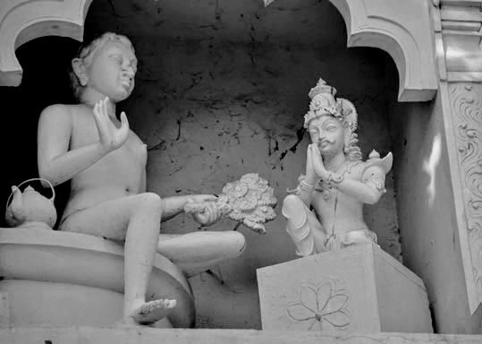 Statue of Maurya Emperor Chandrgupta Maurya and his spiritual mentor Acharya Bhadrabahu Swami at Shravanabelagola.